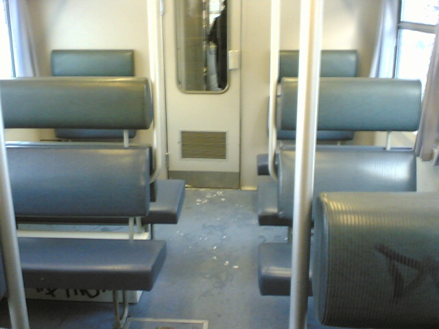 Interior of an unrebuilt VR Class Sm2 commuter electric multiple unit